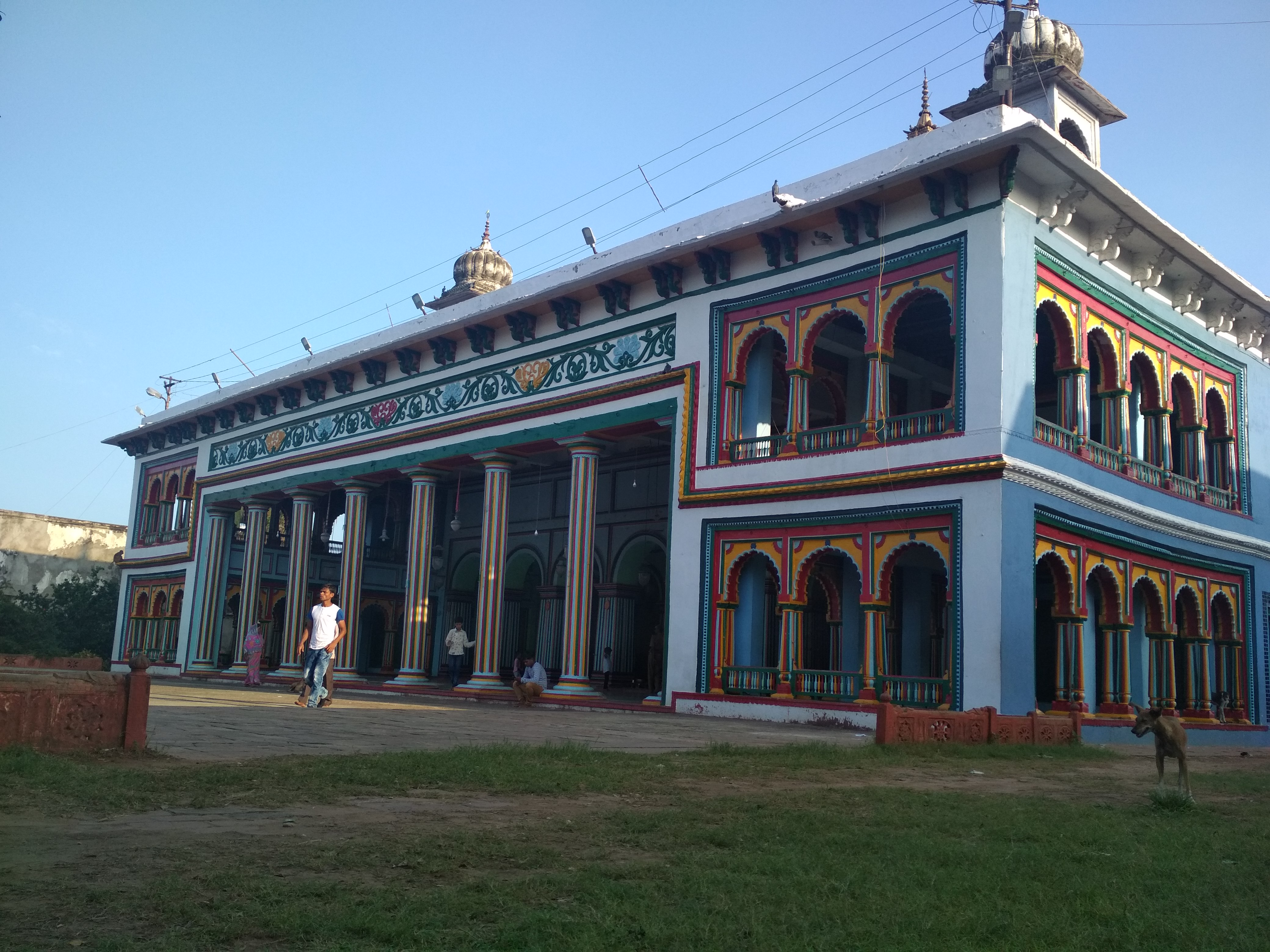 Bihari ji ka Mandir,a temple in Dumraon dist buxar Bihar build by Dumraon Maharaj